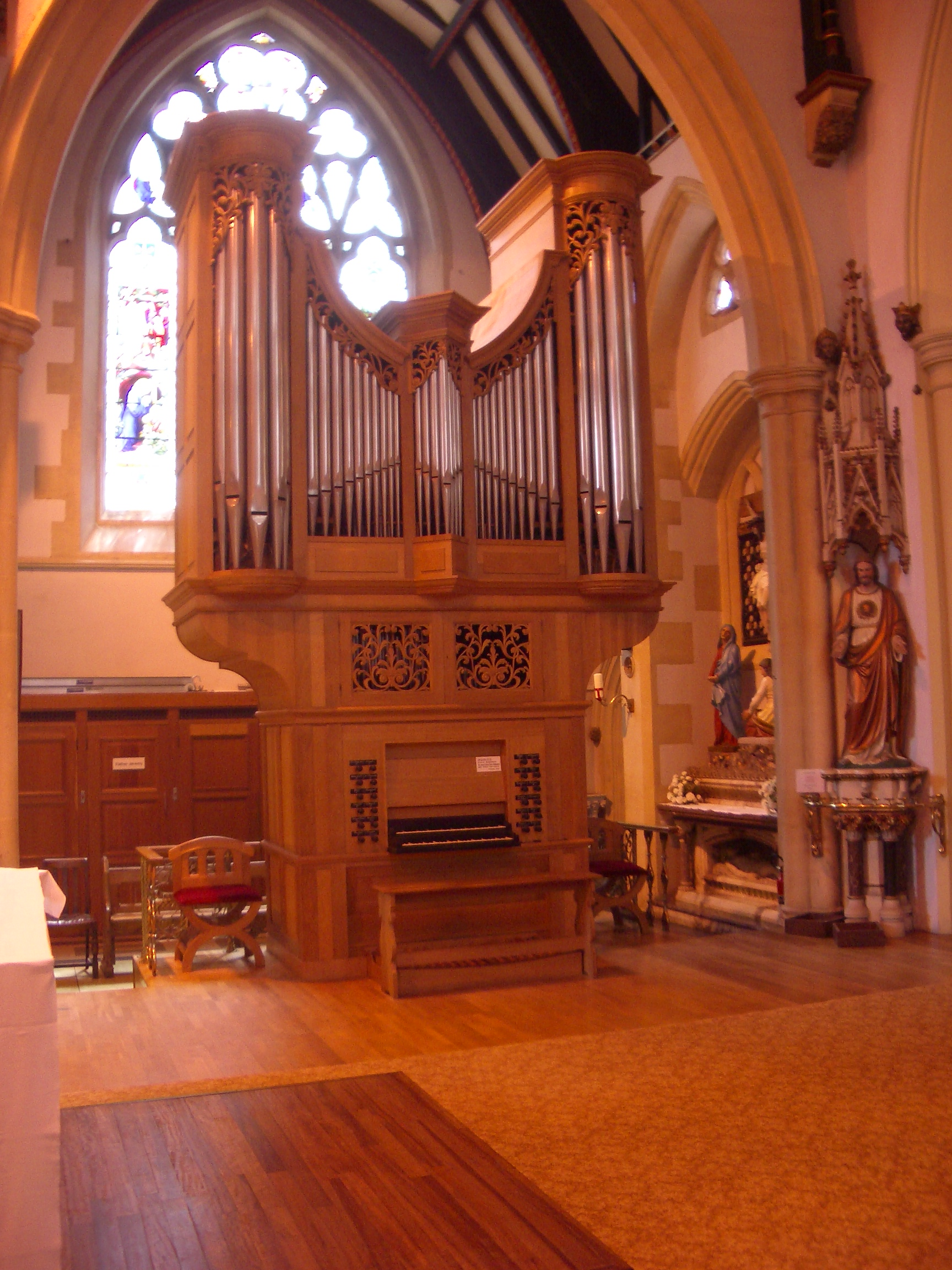 The organ in St Gregory's Church, Cheltenham. Installed in 1986, by the Dutch builder, Sebastian Blank